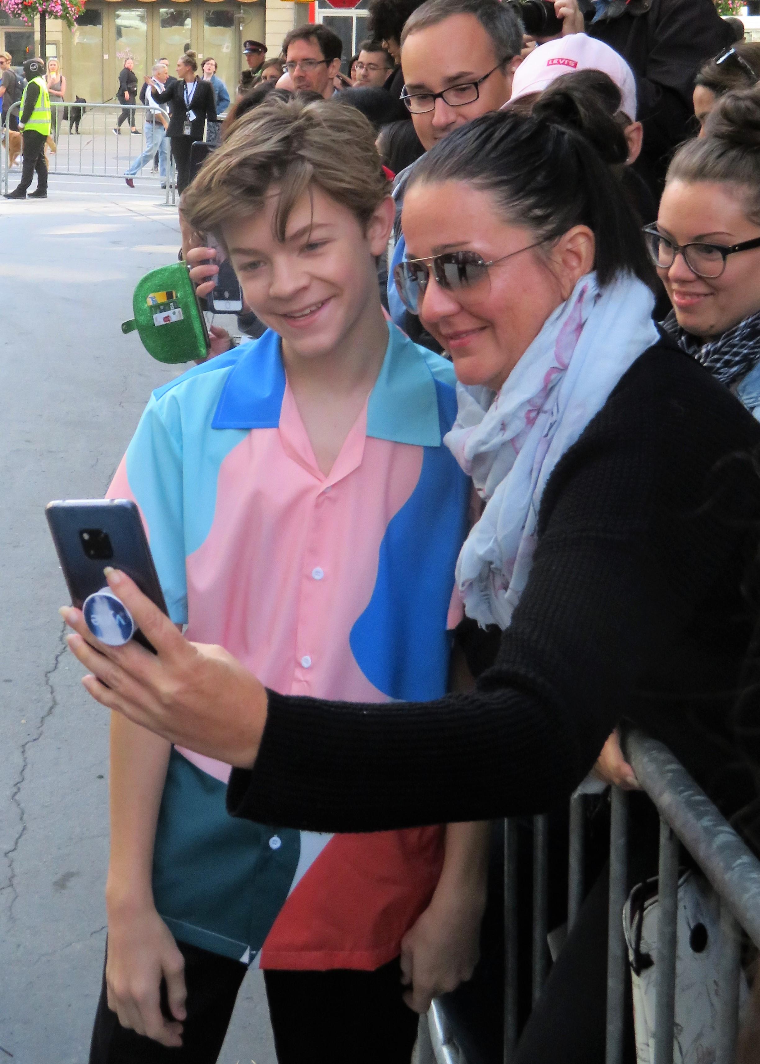 Here's that fan again. Oakes Fegley at the press conference of Goldfinch, 2019 Toronto Film Festival